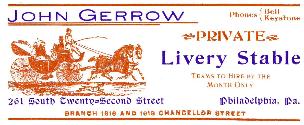 Advertisement of "John Gerrow Private Livery Stable, Philadelphia, PA" 1905